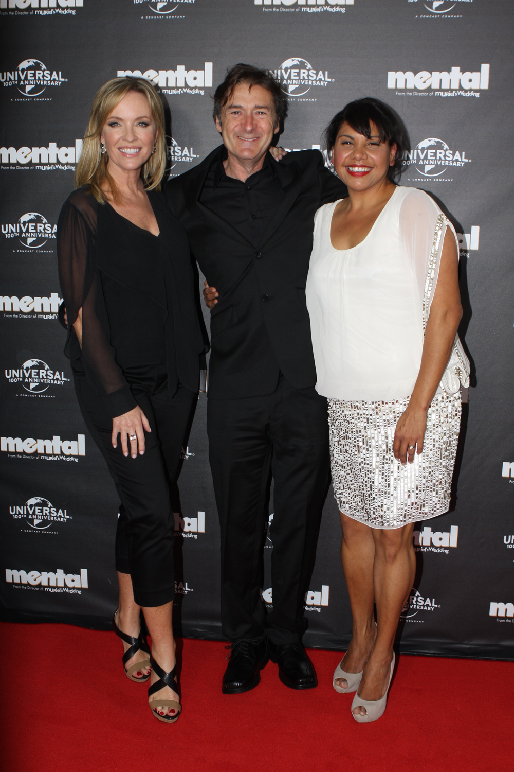 Mental movie premiere at Event Cinemas, Sydney, Australia This evening 'Mental' enjoyed its Australian movie premiere at Event Cinemas, George St, Sydney. The weather was wet outside, but the atmosphere was warmish inside, as Sydney enjoyed yet another red carpet event. Australian filmmaker PJ Hogan reunites with his "Muriel’s Wedding" star Toni Collette with Liev Schreiber, Anthony LaPaglia and Rebecca Gibney. Plot... A charismatic, crazy hothead transforms a family's life when she becomes the nanny of five girls. Director: P.J. Hogan Writer: P.J. Hogan Stars: Liev Schreiber, Toni Collette and Caroline Goodall Websites Mental official website Universal Pictures Australia Event Cinemas Eva Rinaldi Photography Eva Rinaldi Photography Flickr Music News Australia